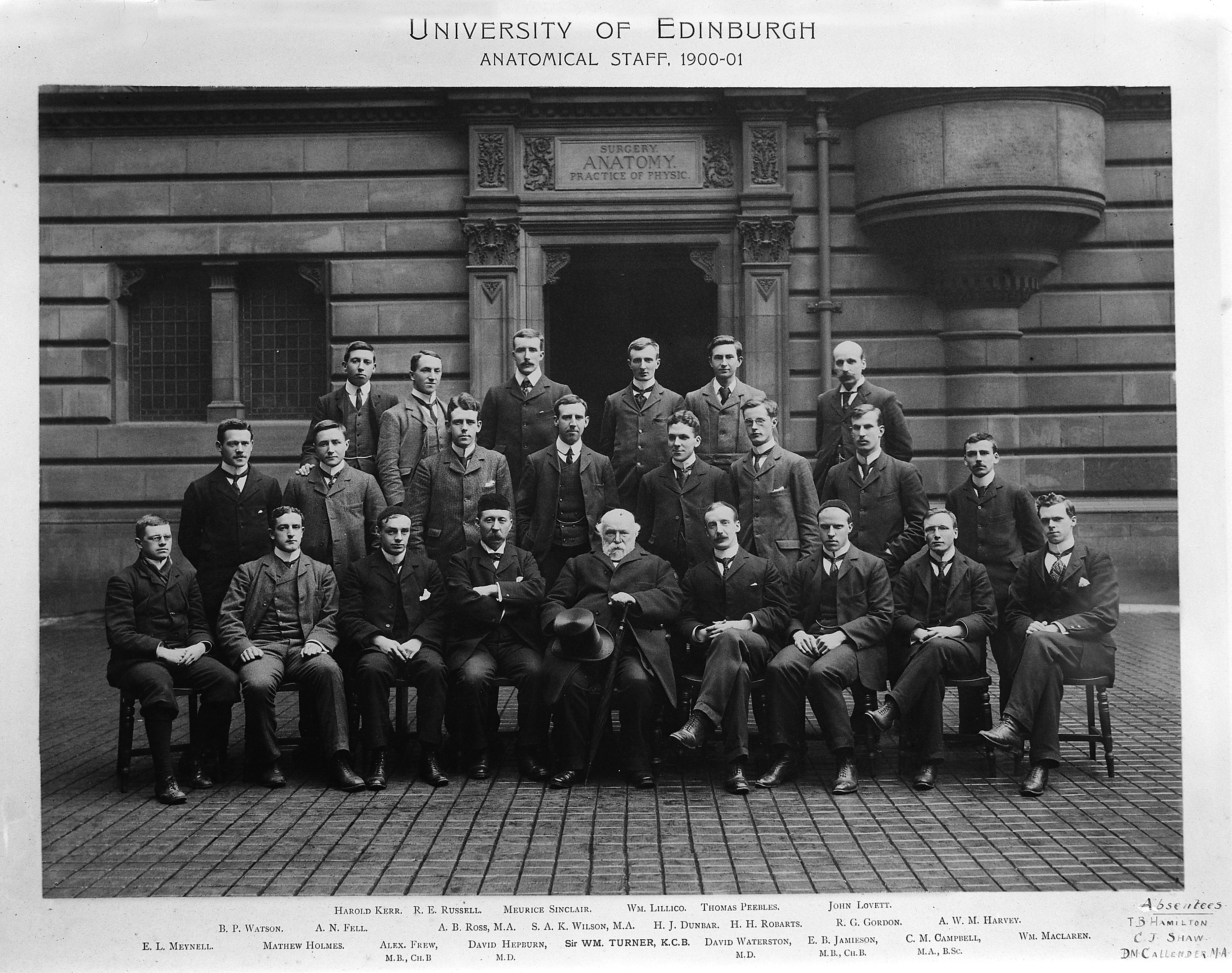 Edinburgh University Group portrait. 1 Harold Kerr / 2 R.E. Russell / 3 Meurice Sinclair / 4 Wm Lillico / 5 Thomas Peebles / 6 John Lovett 1 B.P. Watson / 2 A.N. Fell / 3 A.B. Ross, M.A. / 4 S.A.K. Wilson, M.A. / 5 H.J. Dunbar / 6 H.H. Robarts / 7 R.G. Gordon / 8 A.W.M. Harvey 1 E.L. Meynell / 2 Mathew Holmes / 3 Alexander Frew, M.B., Ch.B / 4 David Hepburn, M.D. / 5 Sir William Turner K.C.B. / 6 David Waterston, M.D. / 7 E.B. Jamieson, M.B. Ch.B. / 8 C.M. Campbell, M.A., B.Sc. / 9 William Maclaren Absentees: T.B. Hamilton C.J. Shaw D.M. Callender, M.A. Iconographic Collections Keywords: Alexander Frew; A.B. Ross; David Hepburn; William MacLaren; group portrait at edinburgh university; David Waterson; Jamieson; H.H. Robarts; William Lilico; C.M. Campbell; E. L. Meynell; Samuel Alexander Kinnier Wilson; A.N. Fell; R.E. Russell; William Turner; I. Scott; John Lovett; A.W.M. Harvey; R.G. Gordon; B.P. Watson